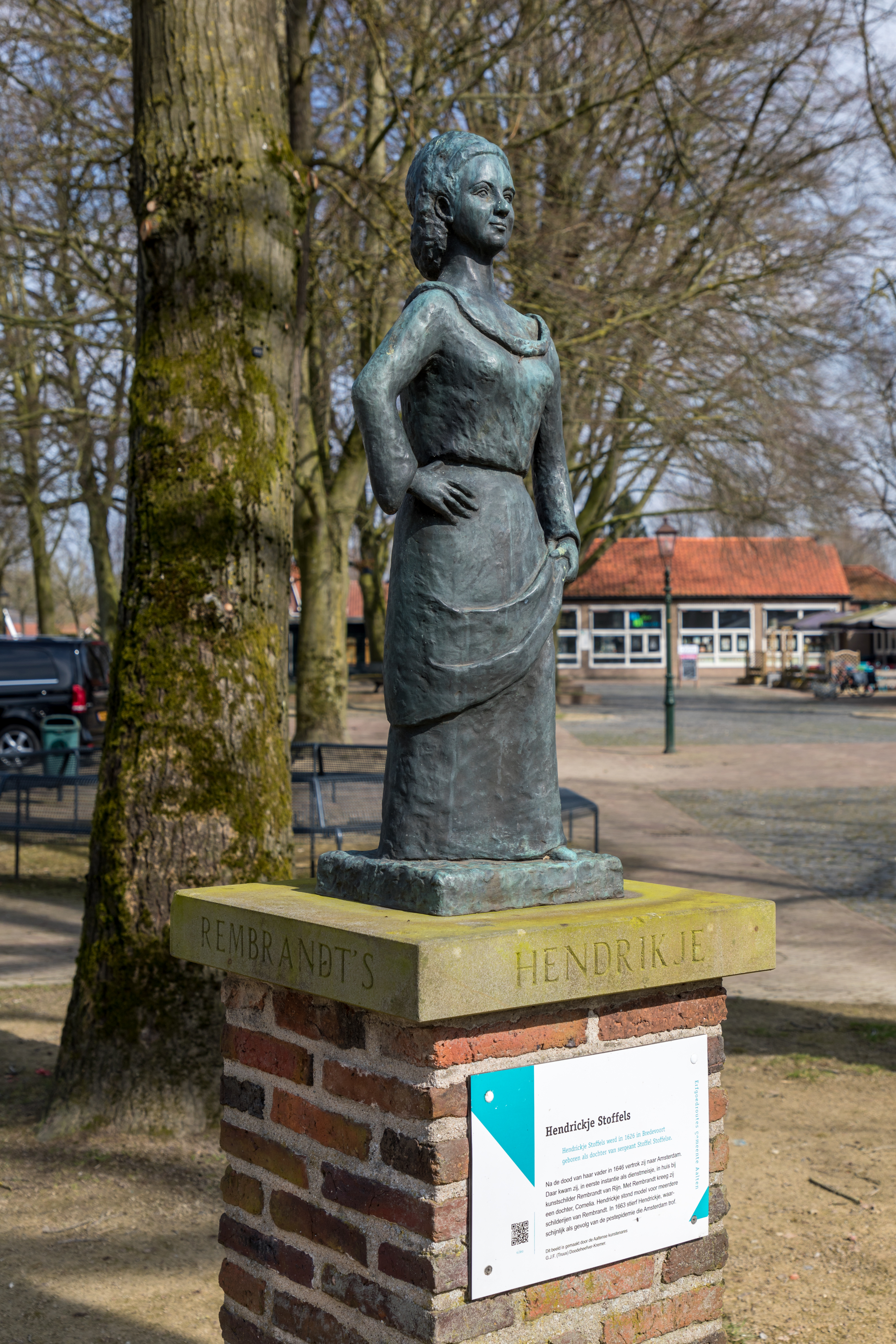 Statue “Hendrickje Stoffels” (Truus Doodeheefver-Kremer, 1977) in Bredevoort, Gelderland, Netherlands Sculpture TitleHendrickje Stoffels”ArtistTruus DoodeheefverDate1977